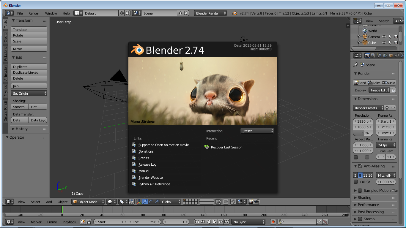 Screenshot of the blender 2.74 splash screen.